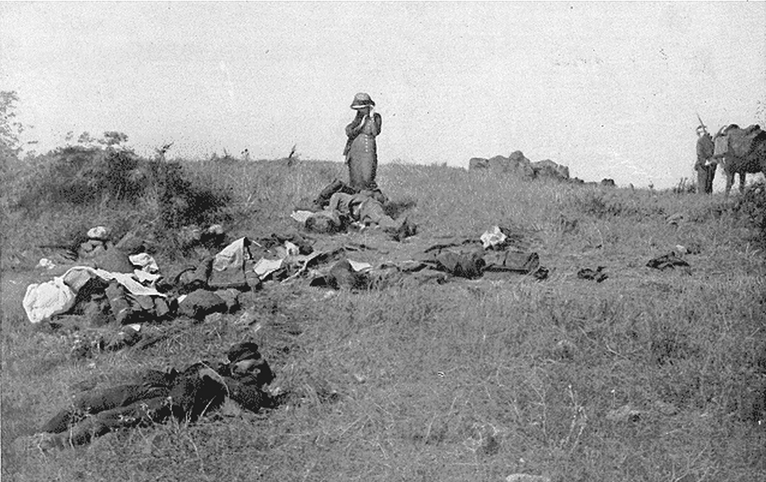 Young Mrs. Jean Leune, correspondent of L'Illustration, before the burial of the dead on the battlefield of Kilkis. Photograph from L'Illustration, 2 August 1913